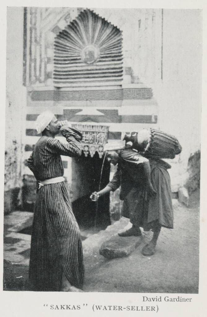 A man with a jug on his back pours a cup of water as another man drinks a cup.